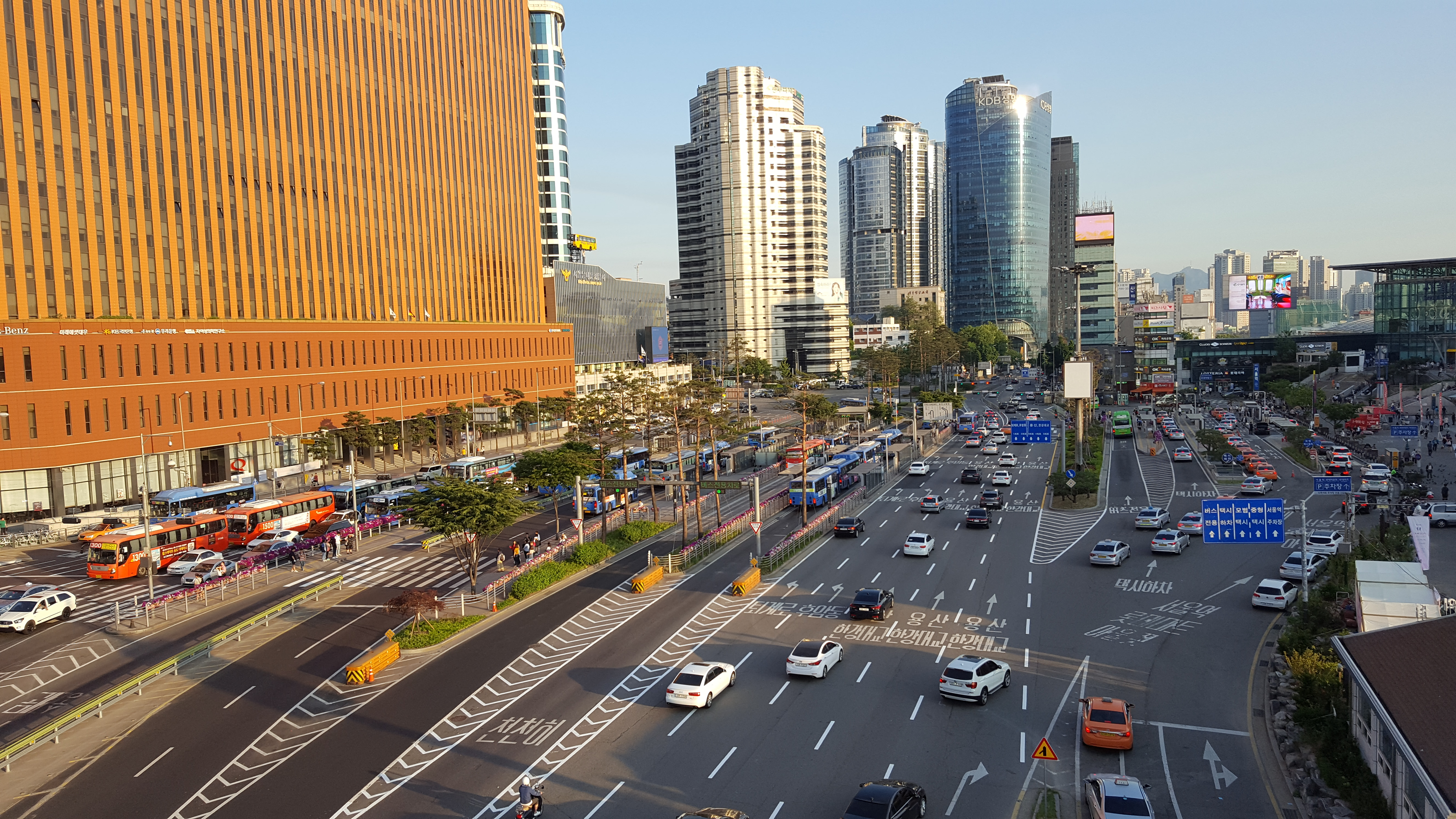 Seoul Station and Hangang-daro (photographed in Seoullo 7017, 2017)